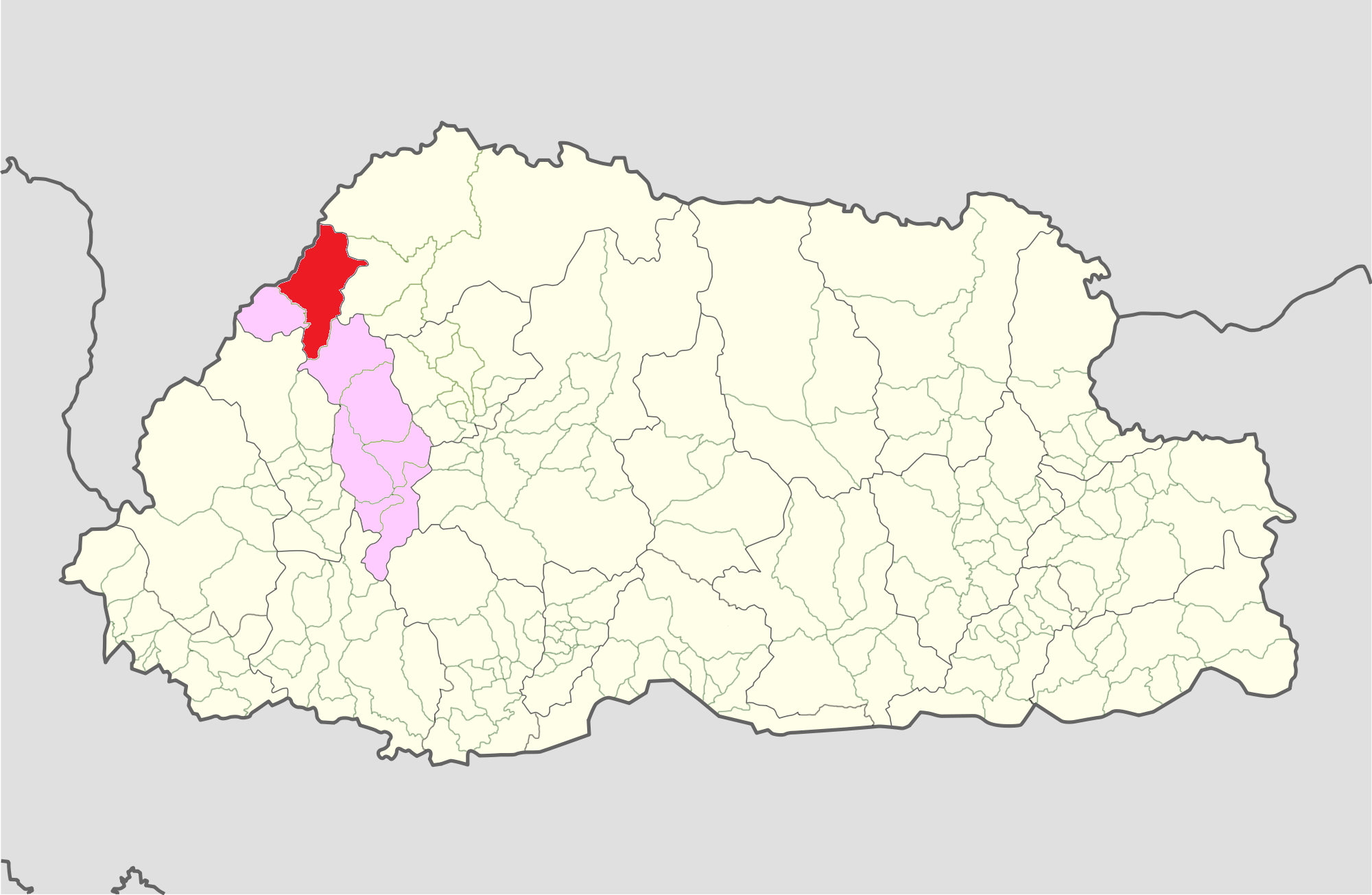 Lingzhi Gewog within Thimphu District, Bhutan